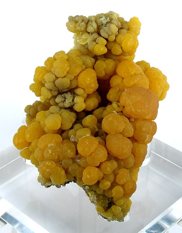 Mimetite Locality: Bilbao Mine, La Blanca, Municipio de Ojo Caliente, Zacatecas, Mexico (Locality at ) Size: 7.9 x 5.8 x 3.4 cm. A mimetite from the Bilbao Mine. The waxy, silky surface to these stands out. Ex. Harold Urish Collection.